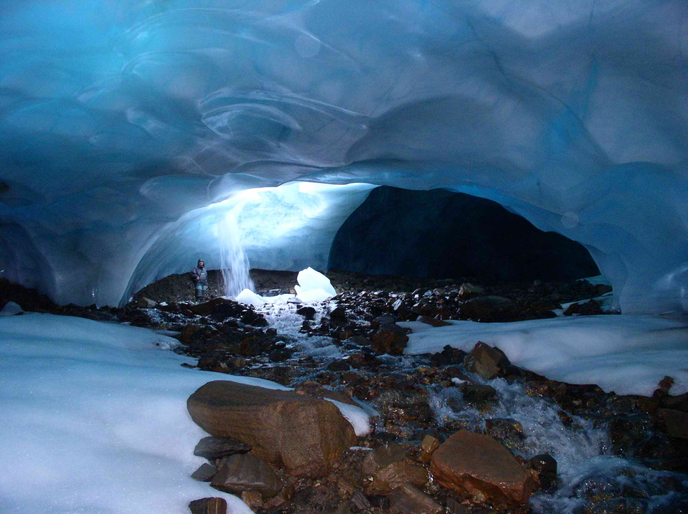 The Ice Cave in Fallbreen, Svalbard